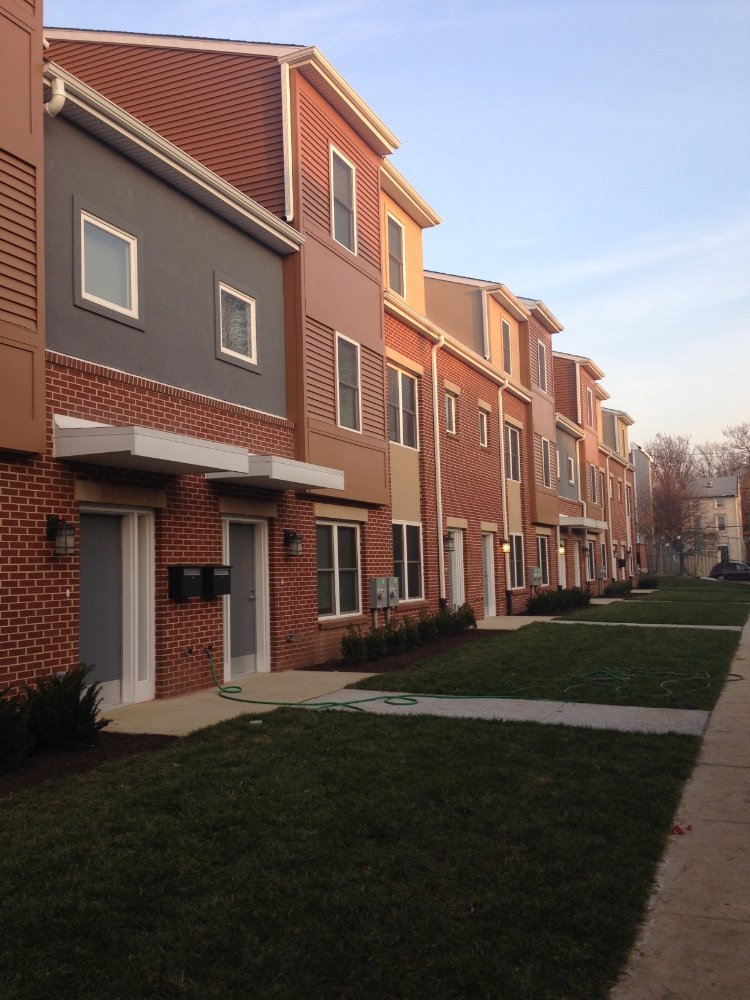 New townhouses located at Queen Lane